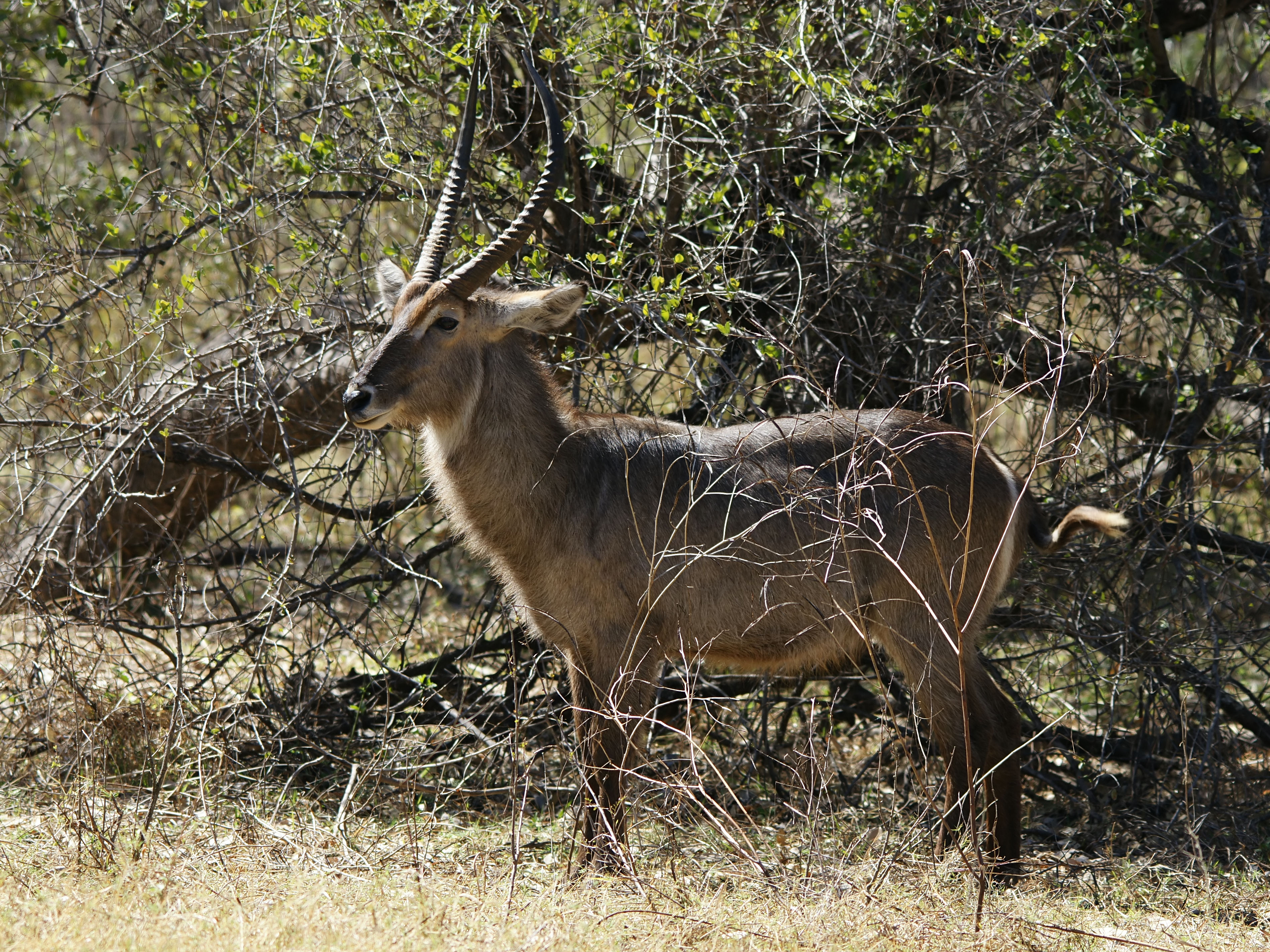 Ellipsen Waterbuck at Mosi-oa-Tunya National Park, Livingstone, Zambia.